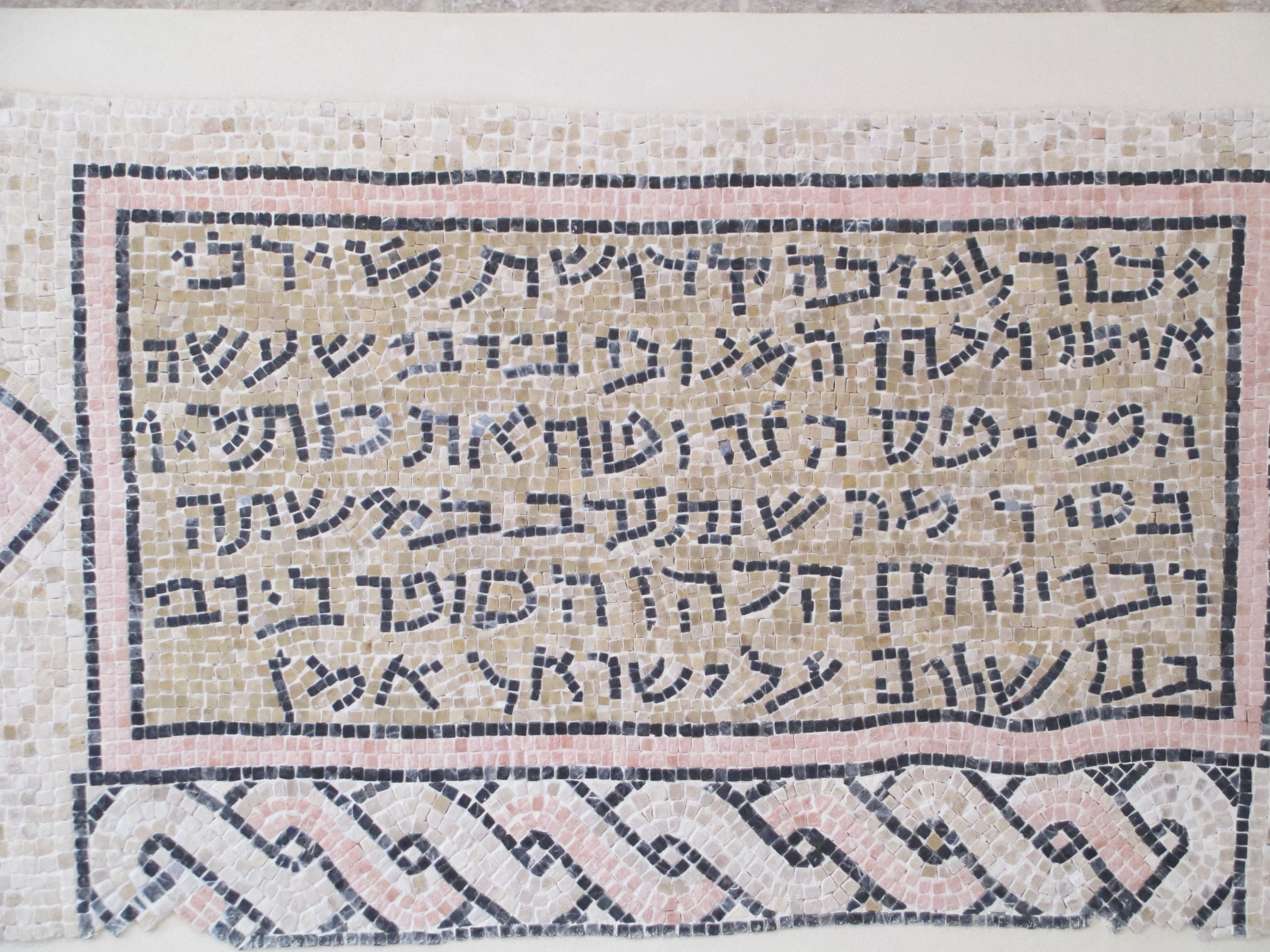 mosaic (replica) from susya ancient synagogue